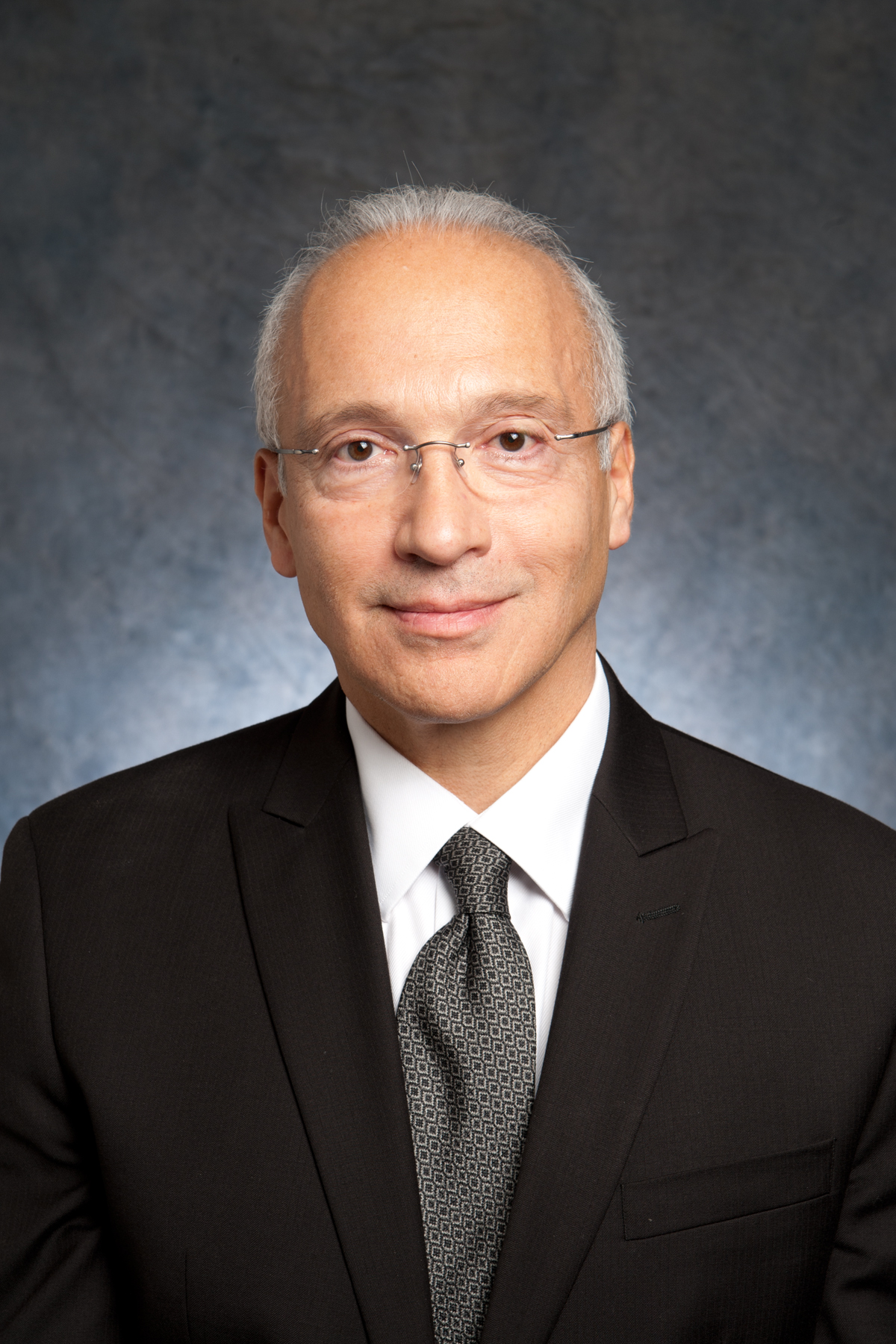 Gonzalo P. Curiel, US Federal Judge